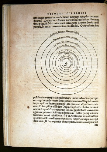 Heliocentric model printed in the book De revolutionibus orbium coelestium On the Revolutions of the Heavenly Spheres.